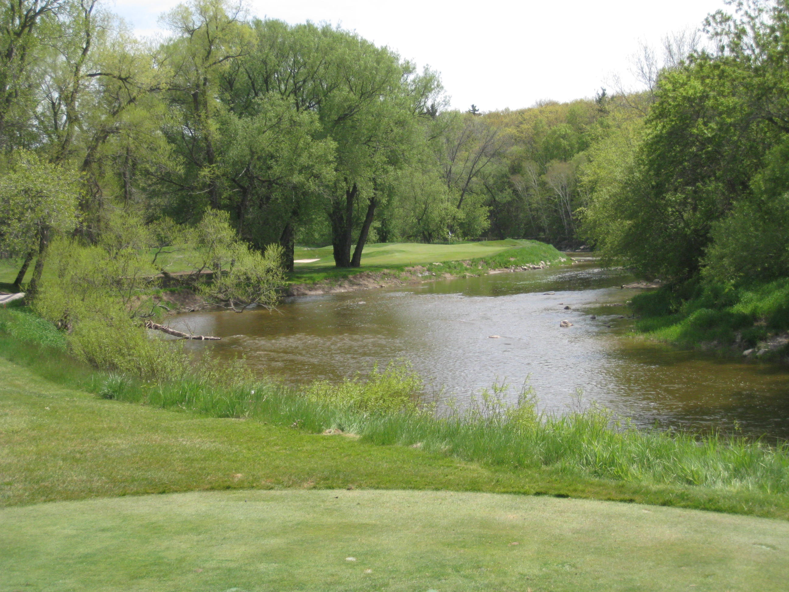 Picture of the 13th tee shot at The River Course, Blackwolf Run, Kohler, Wisconsin. Easily one of my favorite holes, although very tough to hit with a draw. Read my Review of The River Golf Course, located at Blackwolf Run in Kohler, Wisconsin.